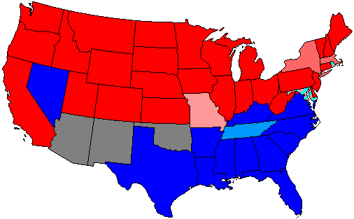 Summary of party control of U.S. house seats in the 59th United States Congress following election. Stripes indicate a tie between two or more parties. Legend: 80.1-100% Democratic seat majority 60.1-80% Democratic seat majority 60% or less Democratic seat plurality 60% or less Republican seat plurality 60.1-80% Republican seat majority 80.1-100% Republican seat majority